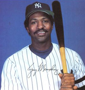 Professional baseball player Jerry Mumphrey during the 1981 season as a member of the New York Yankees.